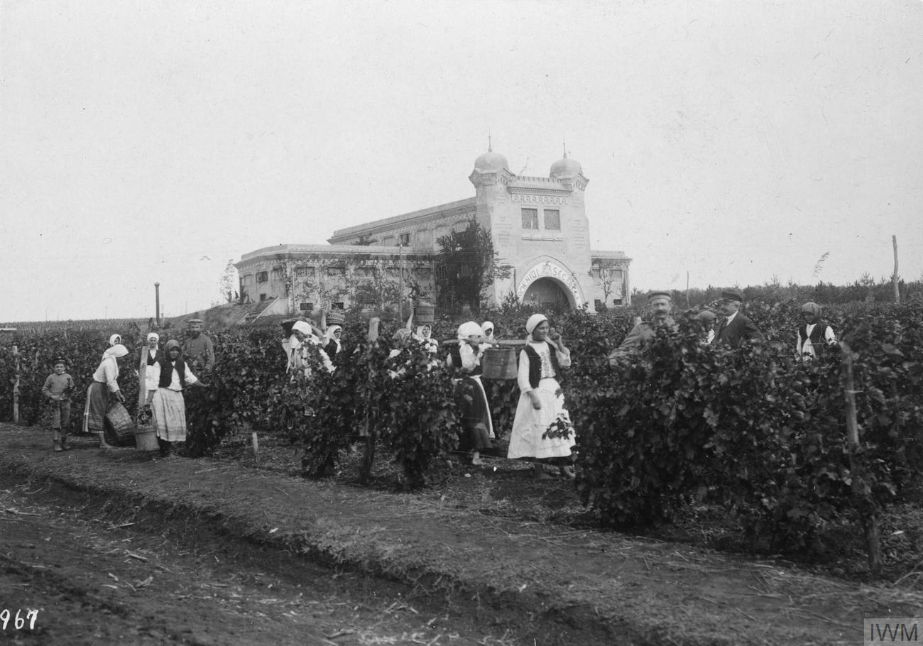 The Occupation of Romania by the Central Powers, 1916-1918 Romanian peasants working during the grape harvest, ending with the wine festival, near Segarcea.